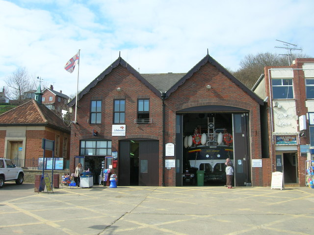 Filey Lifeboat Station